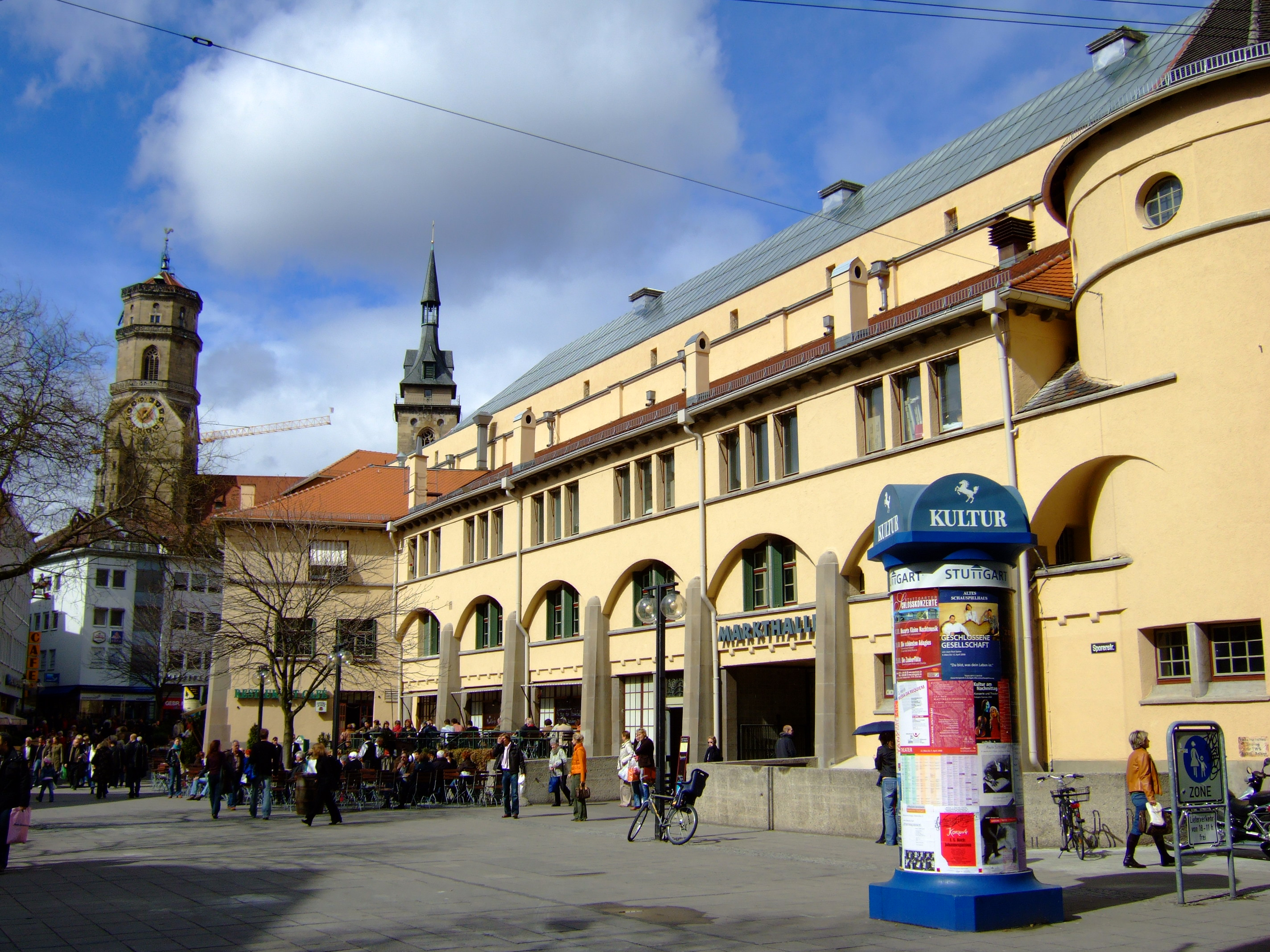 market hall of Stuttgart/Germany